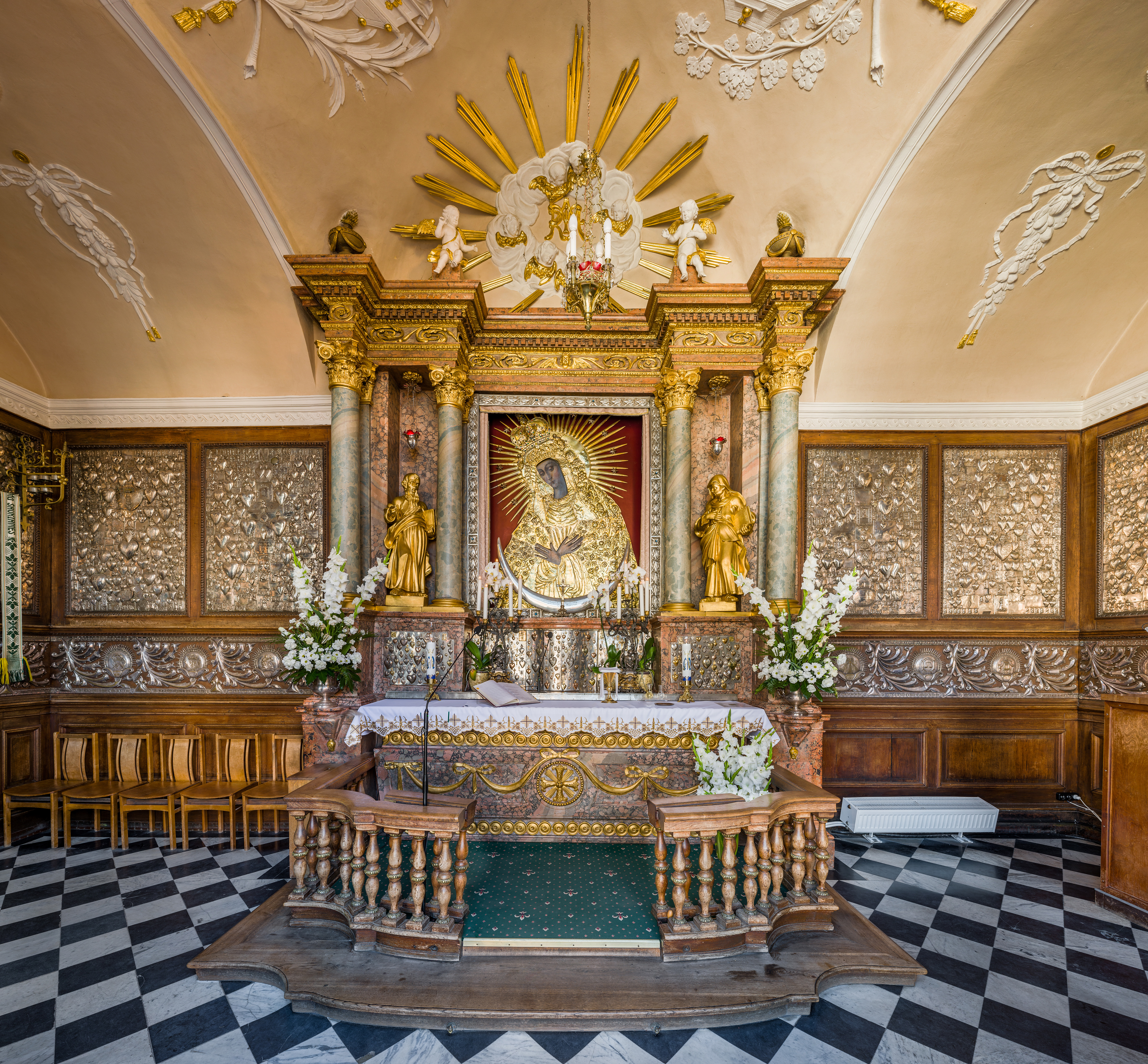 The interior of Our Lady of the Gate of Dawn in Vilnius, Lithuania.